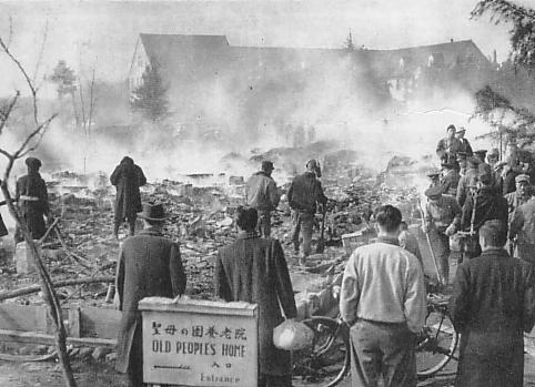 Seibo-no-Sono Yoroin(Elderly home) Fire